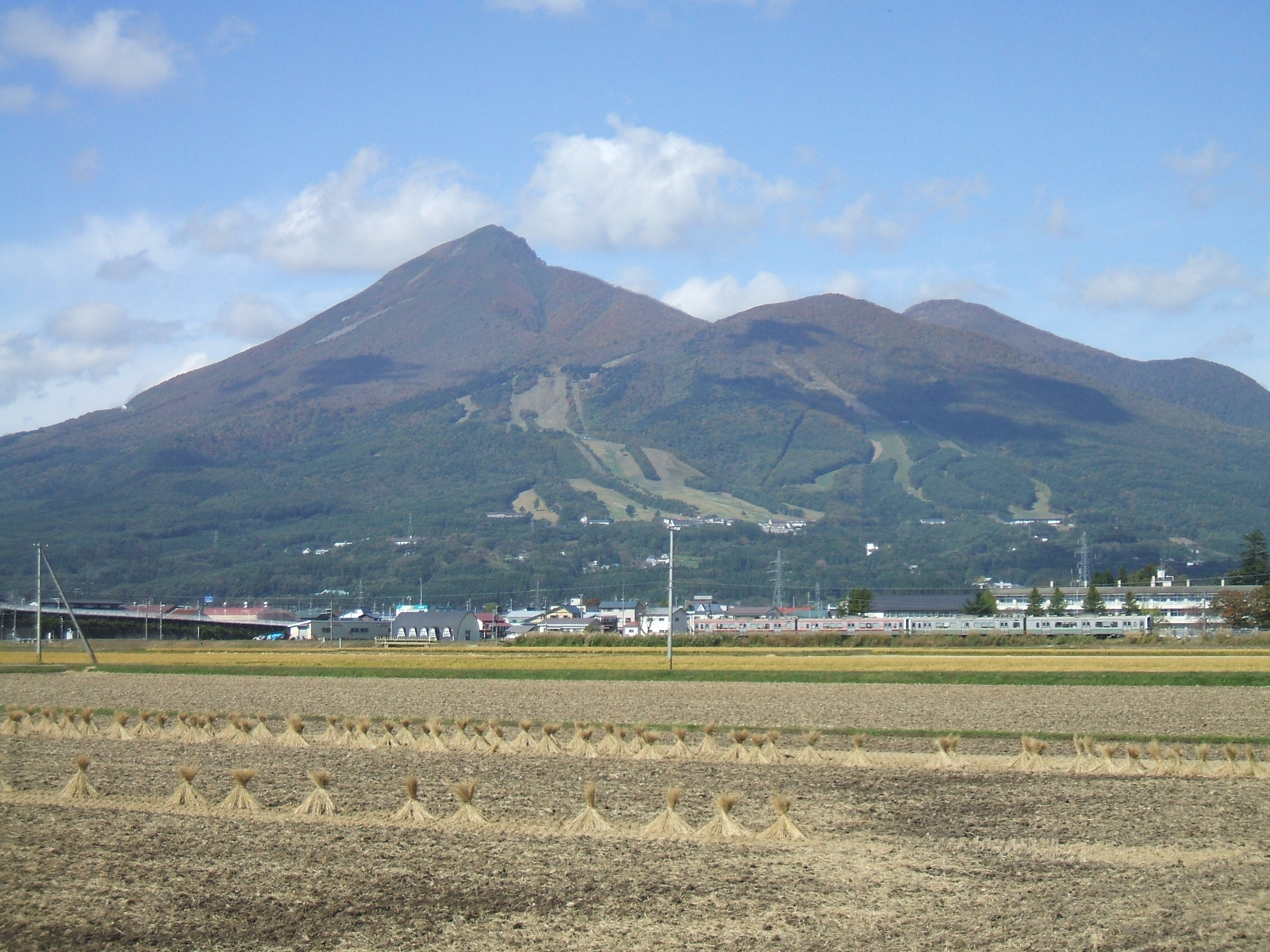 JR West Ban'etsu Line ("Banetsu Saisen") train with Mt.Bandai. Taken at Inawashiro, Fukushima.